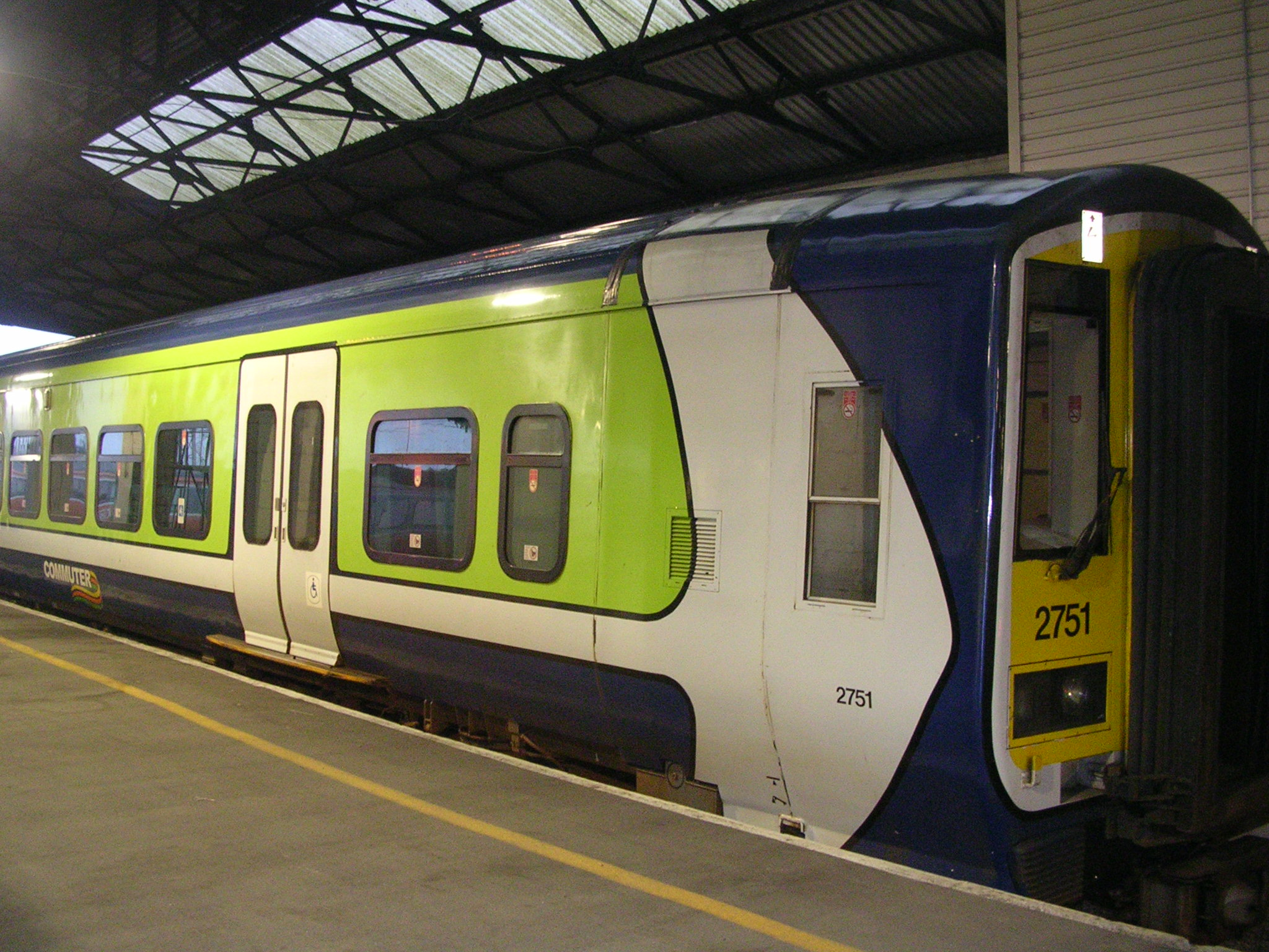 IÉ 2750 Class diesel multiple unit 2751 at Limerick railway station by the author (Dawgz), Feb 2006